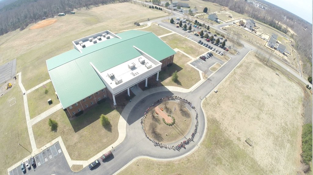 An aerial view of Williamsburg Christian Academy's building and grounds